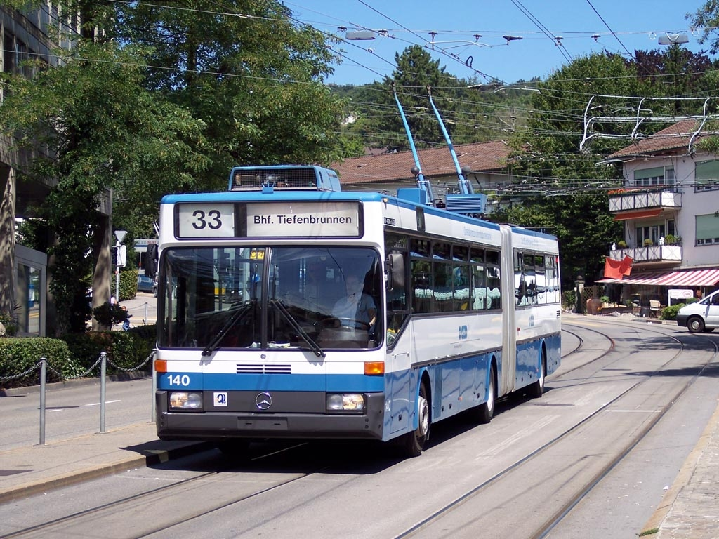 Between 1988 and 1994, Zürich replaced its entire trolleybus fleet with Mercedes-Benz O 405 GTZ artics. This is number 140 from the second batch on route 33 an Kirche Fluntern.